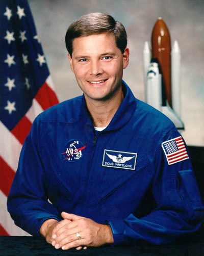 Astronaut Douglas H. Wheelock (6/2006)]